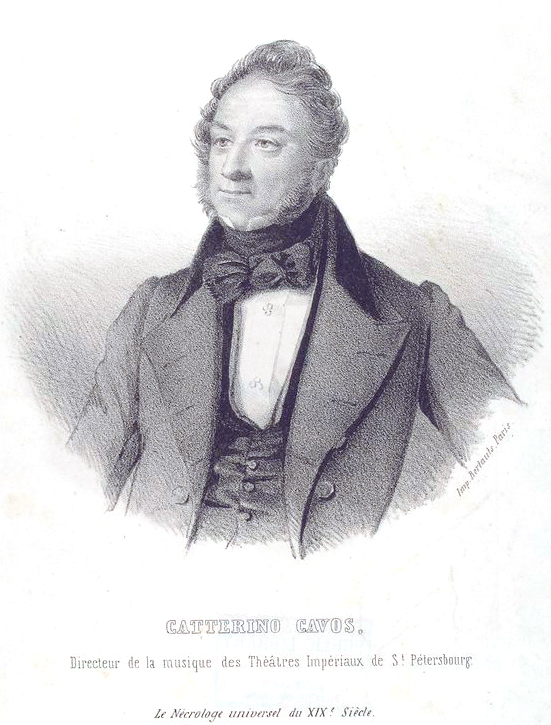 Russian composer Catterino Cavos (1775—1840)